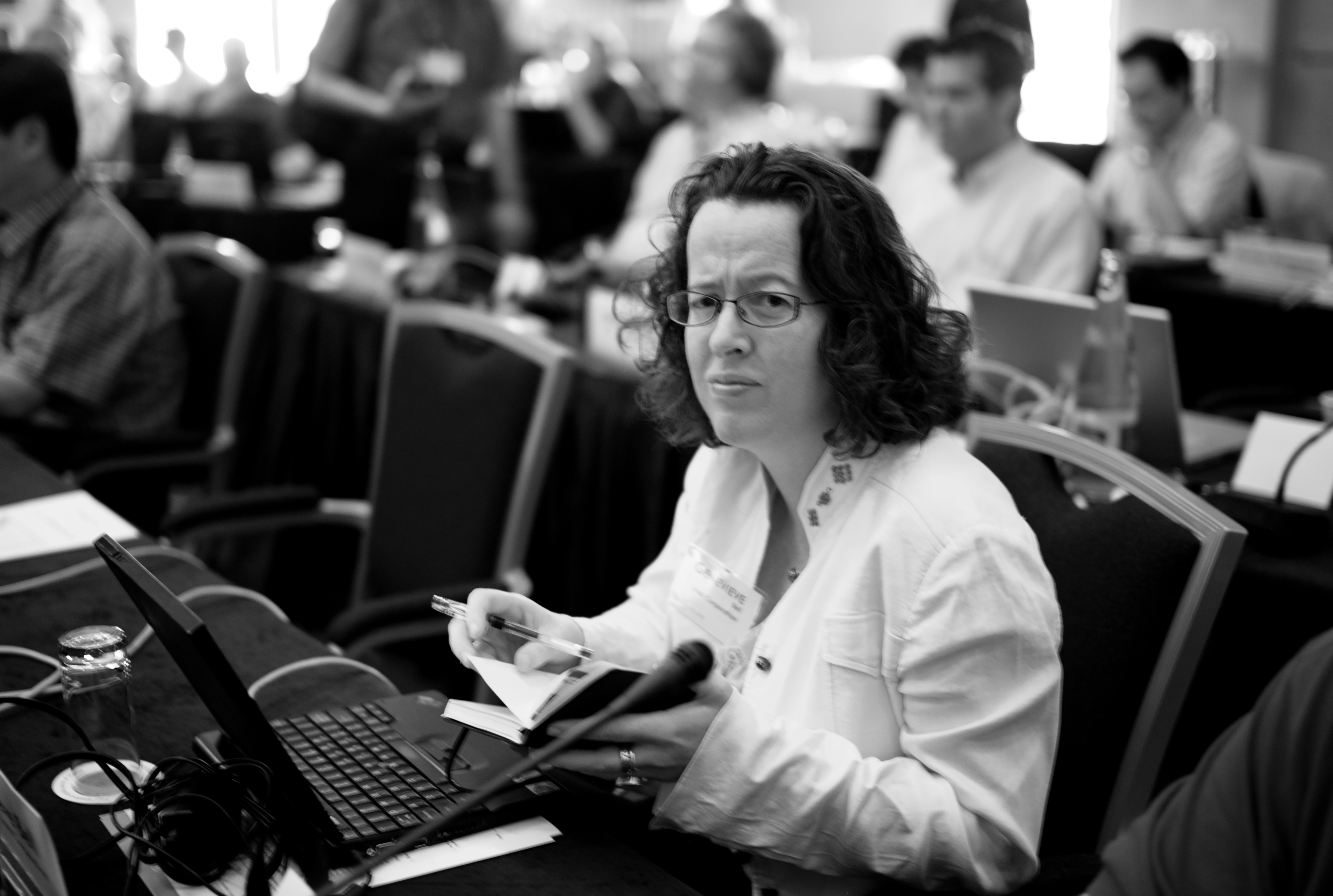 Genevieve Bell